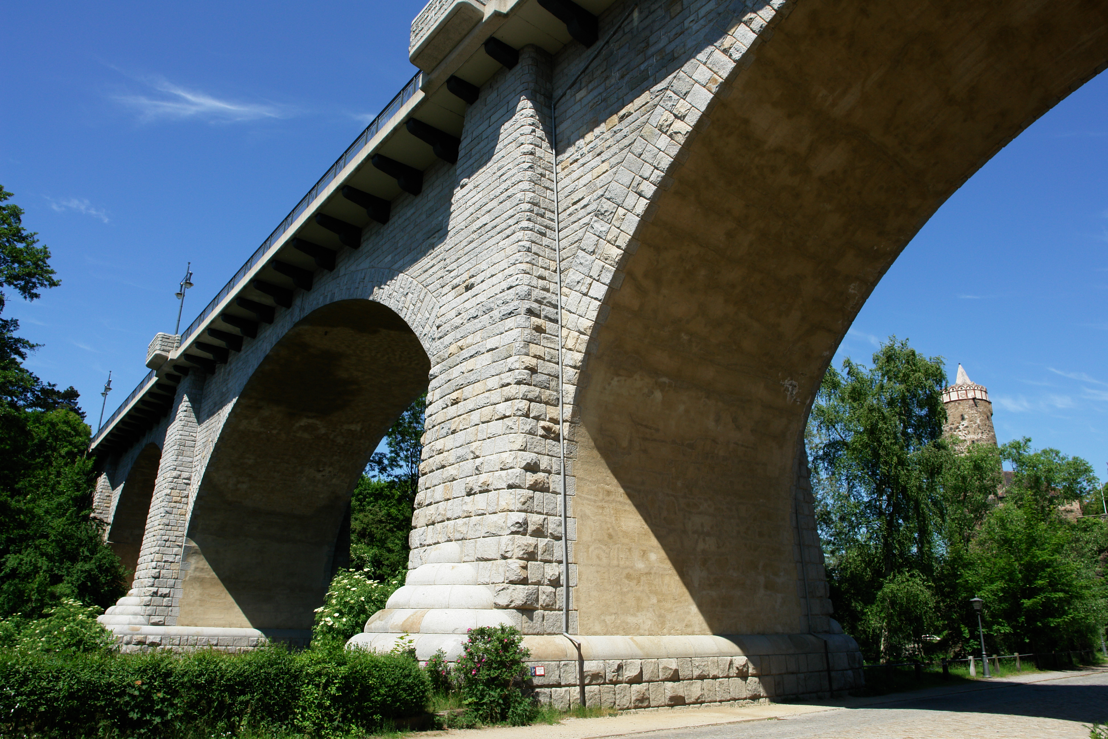 Peace Bridge in Bautzen, Germany.